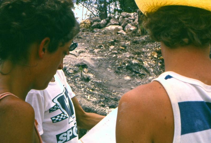 Eliza Butler, of Piscataway, New Jersey fame & Ross Carter from British Columbia discuss excavation strategy with British archaeologist Sara Donaghey